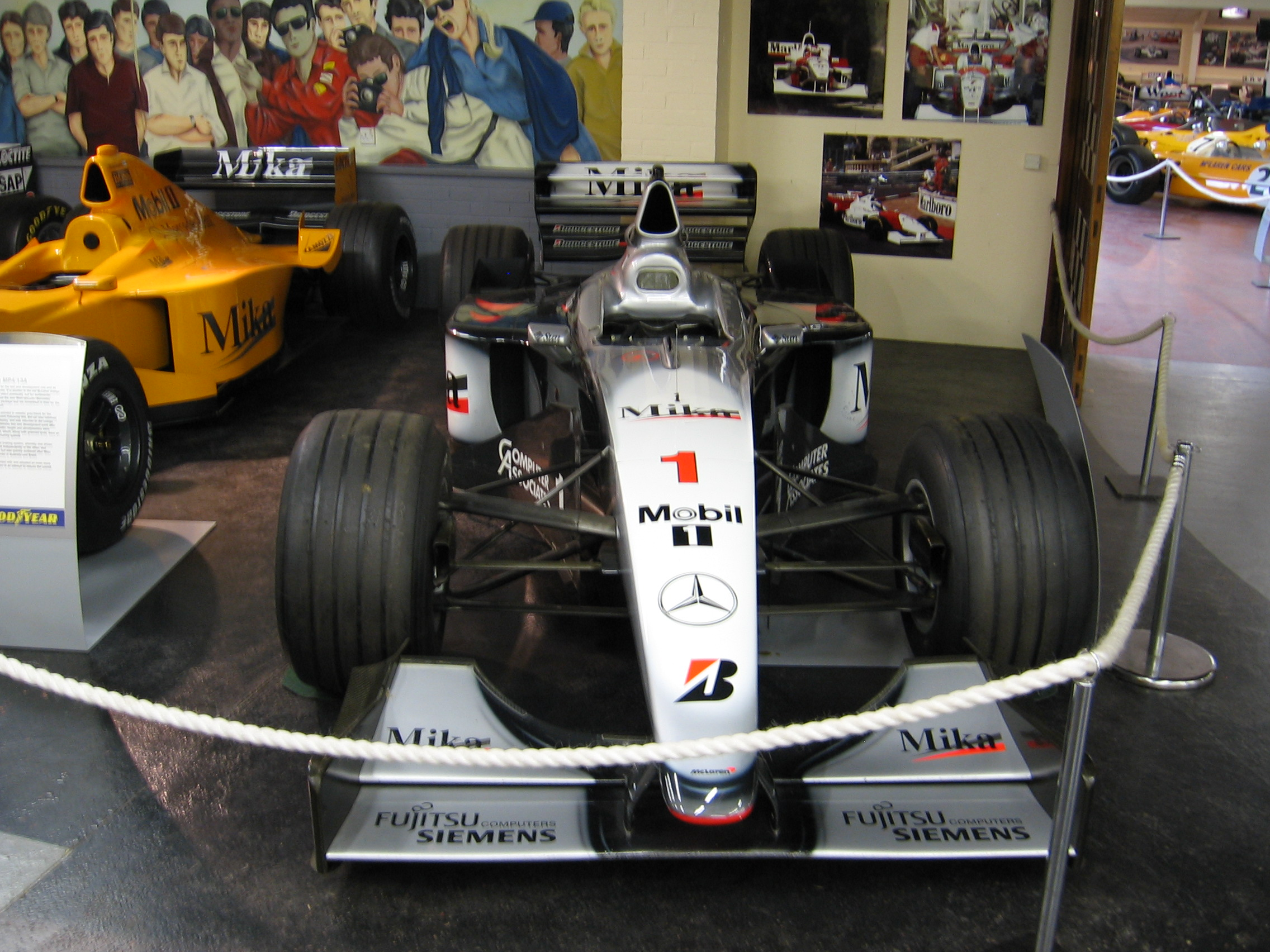 Mika Hakkinen MP4/14 chassis 4. Donington Collection display. Car in condition it crossed the line to win the 1999 Japanese Grand Prix and Hakkinen the Drivers' Championship